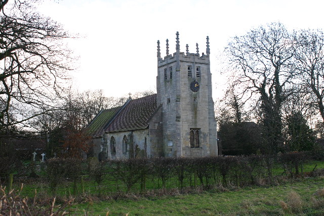 All Saints Church at Routh, East Riding of Yorkshire, England.Looking south from position.